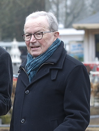 The former president and CEO of Lego, Kjeld Kirk Kristiansen at the opening of the 2018 season of the amusement park Legoland Billund Resort in Denmark. The amusement park celebrates 50 years in 2018.